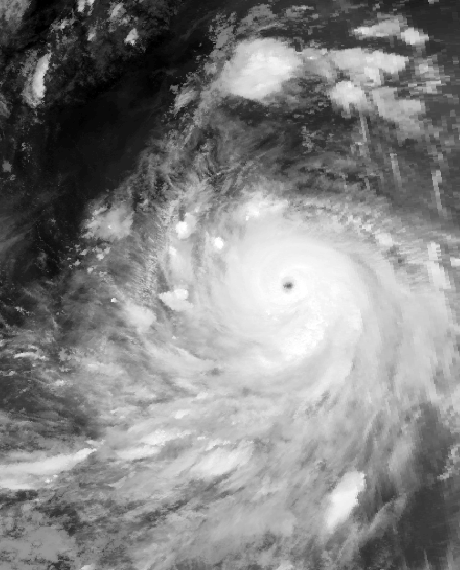 Typhoon Joe on July 20, 1980